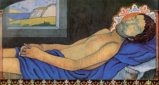 Charles Filiger: Christ entombed (1895)